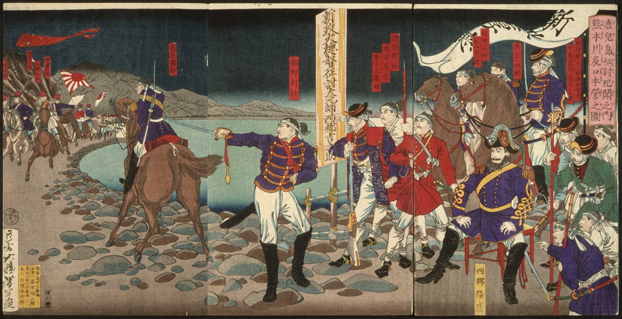 Japan, 1877 Alternate Title: Kamamoto kawajiriguchi ho'ei no zu Series: An Oral Account of the Subjugation of Kagoshima Prints; woodcuts Triptych; color woodblock print 13 7/8 x 27 15/16 in. (35.2 x 70.9 cm) Herbert R. Cole Collection (M.84.31.319a-c) Japanese Art